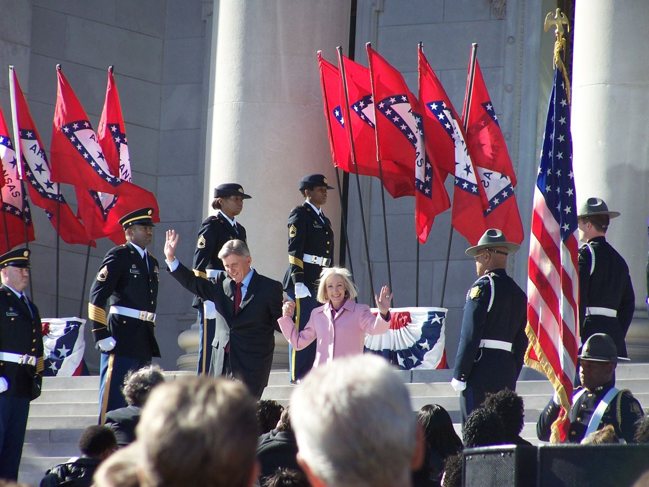 Pictures from the inauguration of Mike Beebe as Arkansas' Governor. State Capitol, Little Rock, AR. January 9, 2007.